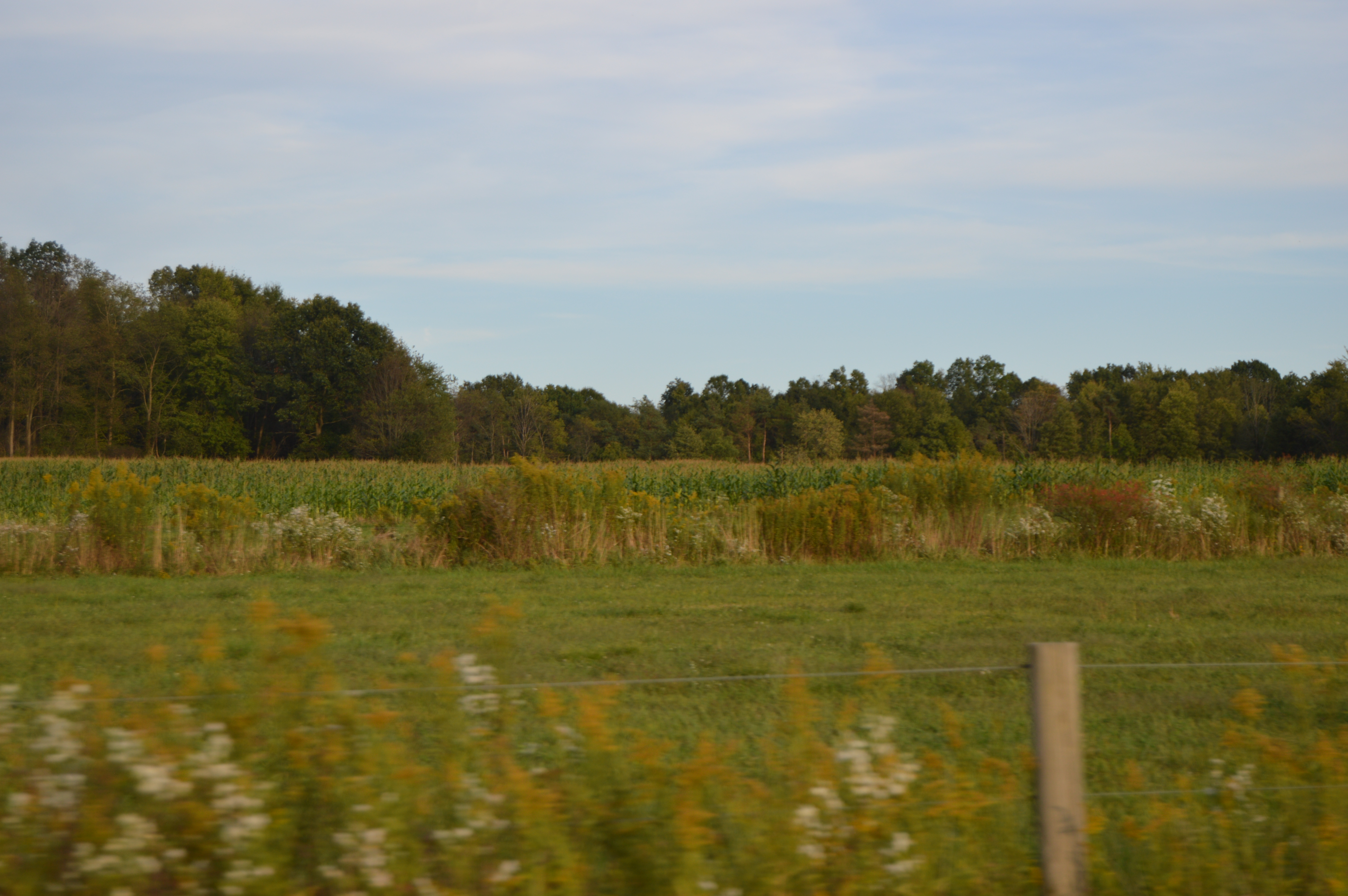 A cornfield on the eastern side of North Foster Road, northwest of Jackson Center, in Jackson Township, Mercer County, Pennsylvania, United States.